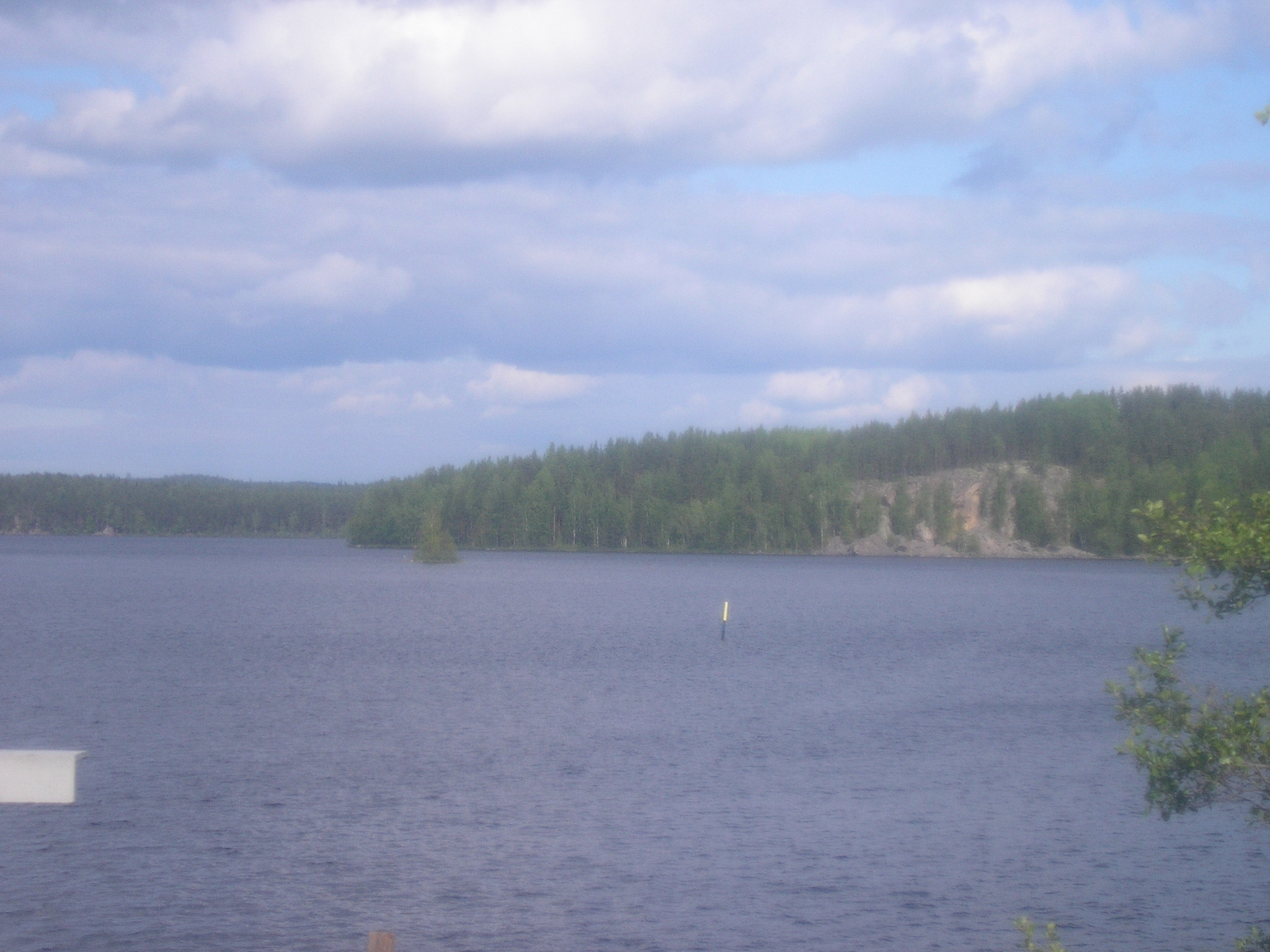 Lake Repovesi in Kouvola, Finland seen from Hillosensalmi